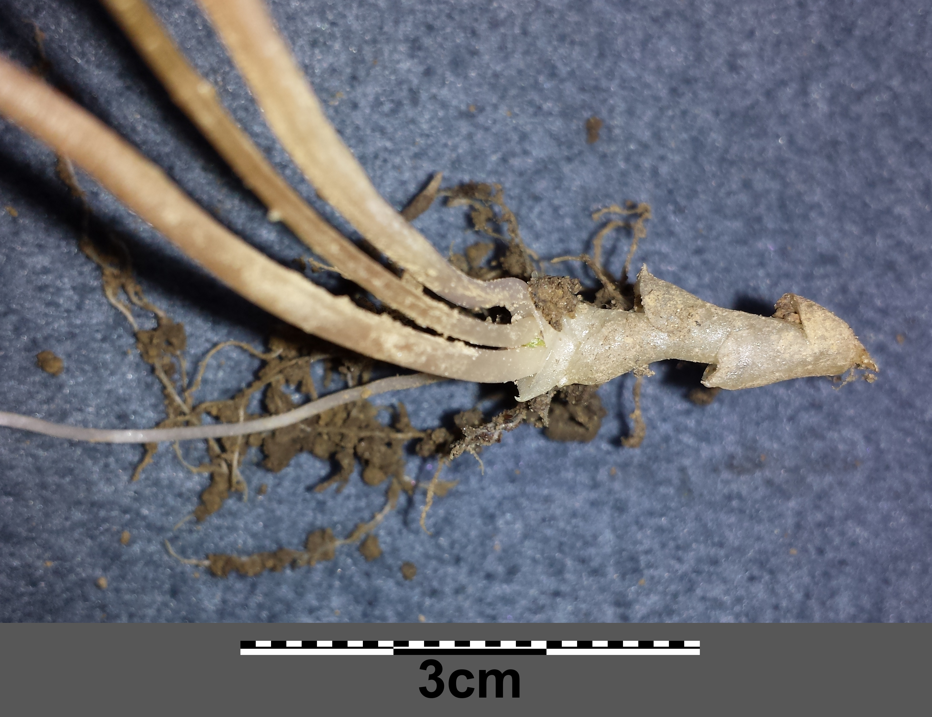 Part of rhizome (right side) Taxonym: Adoxa moschatellina ss Fischer et al. EfÖLS 2008 ISBN 978-3-85474-187-9 (det. M. A. Fischer) Location: Kreuttal, district Mistelbach, Lower Austria - ca. 200 m a.s.l. Habitat: floodplain forest